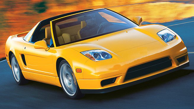 Акура